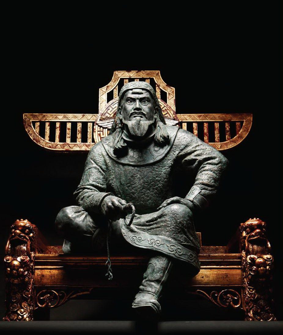 Korzhev Ivan. Chingishan.